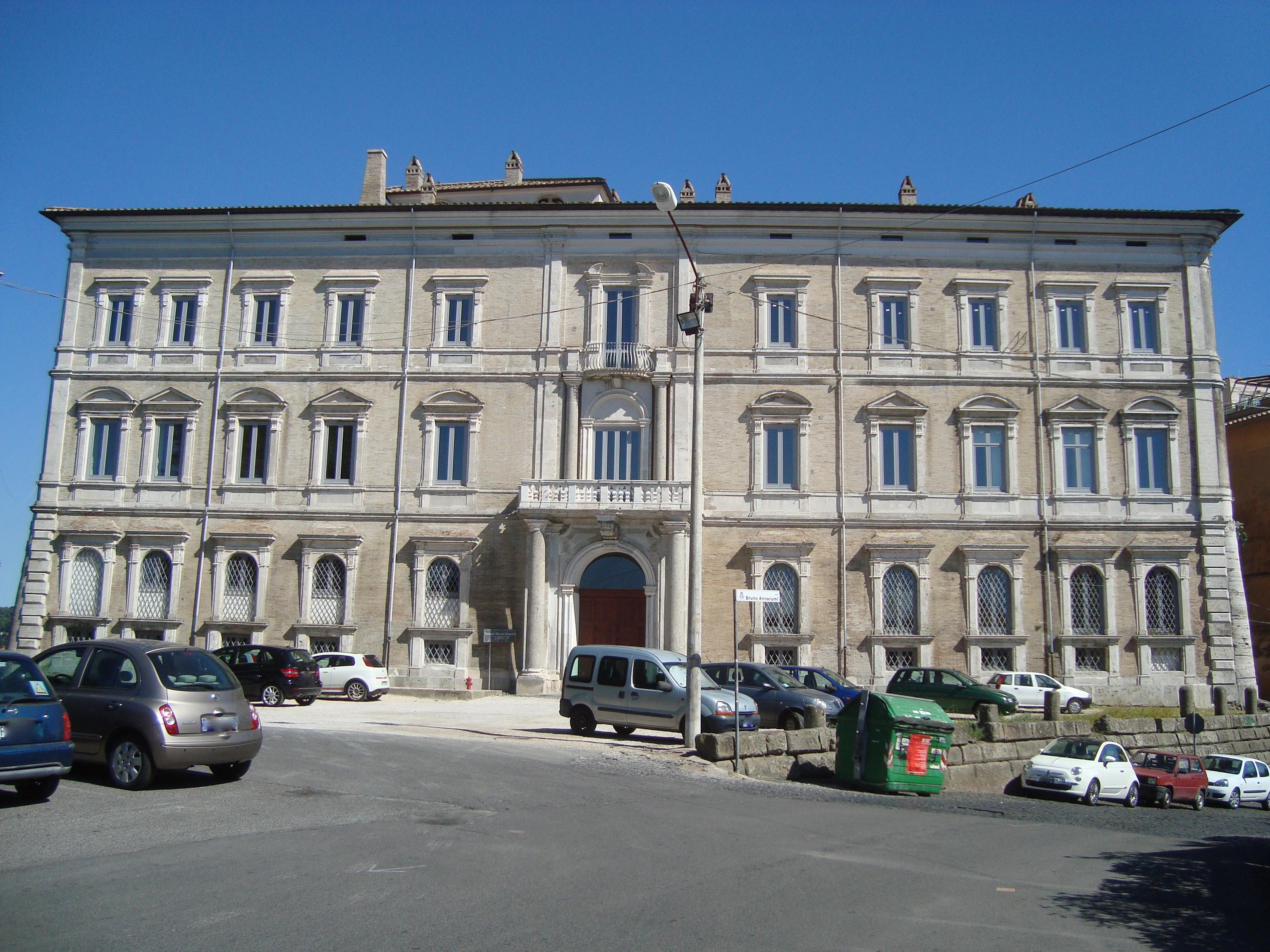 The Palazzo Sforza Cesarini in Genzano di Roma